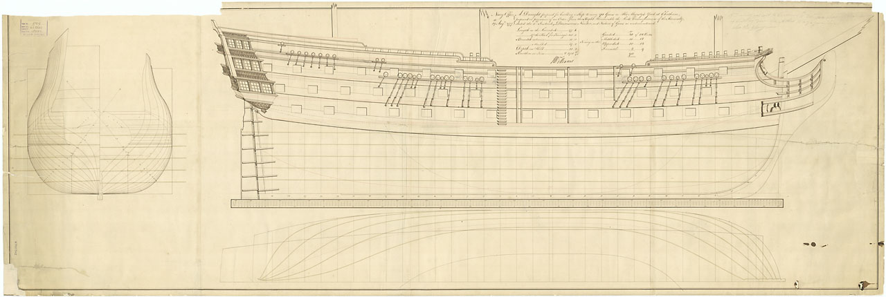 The body plan, sheer lines with stern quarter decoration, and longitudinal half breadth proposed for Atlas (1782), a 90-gun Second Rate, three-decker. The plan includes pencil alterations dated 1802 for cutting down Atlas and Glory (1788), to 74-gun Third Rate, two-deckers. Signed by John Williams (Surveyor of the Navy, 1765-1784).